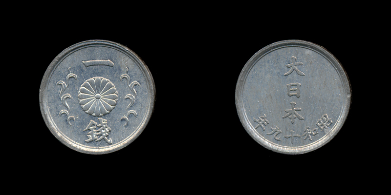 1sen-S19